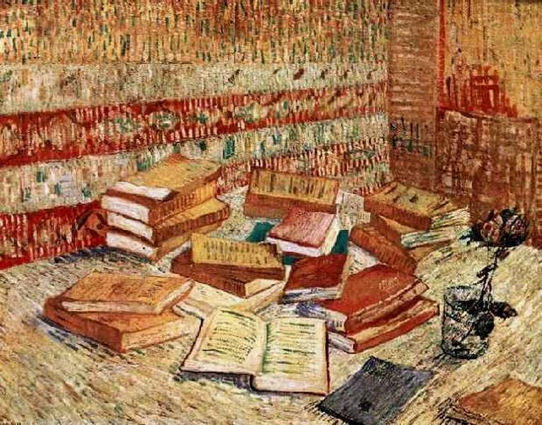 Still Life with French Novels and a Rose F_359 JH_1332